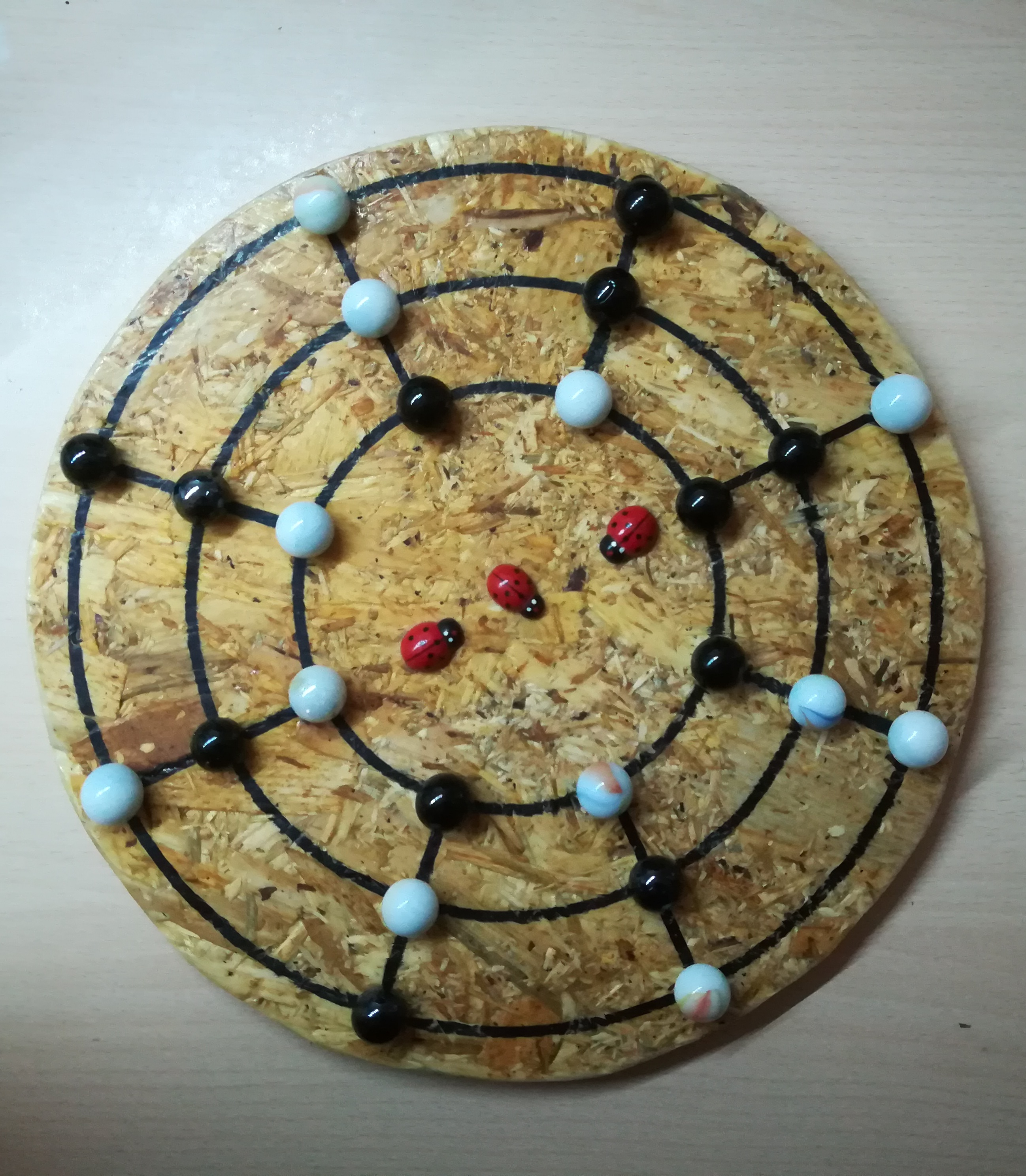 Twelve Men's Morris